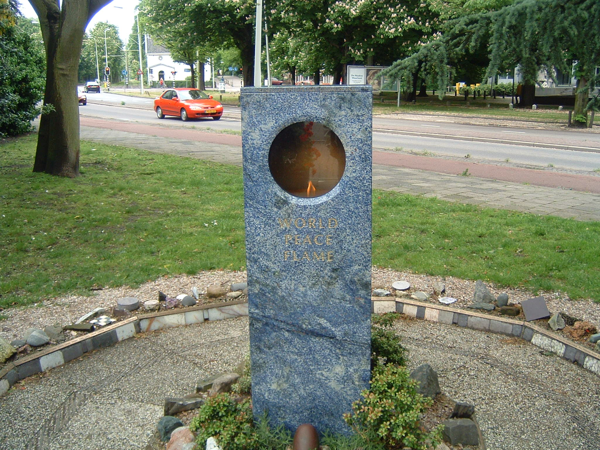 Own photograph. World Peace Flame in The Hague (The Netherlands) near the Peace Palace.